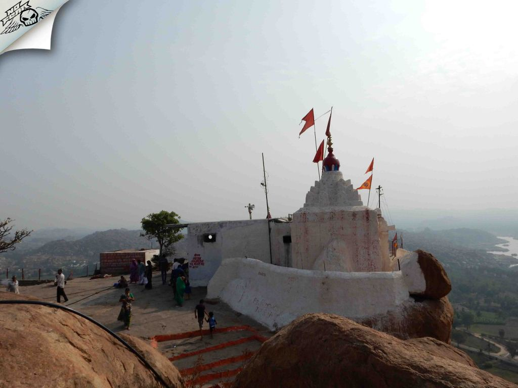 This Hanuman temple is visited by thousands of devotees every year